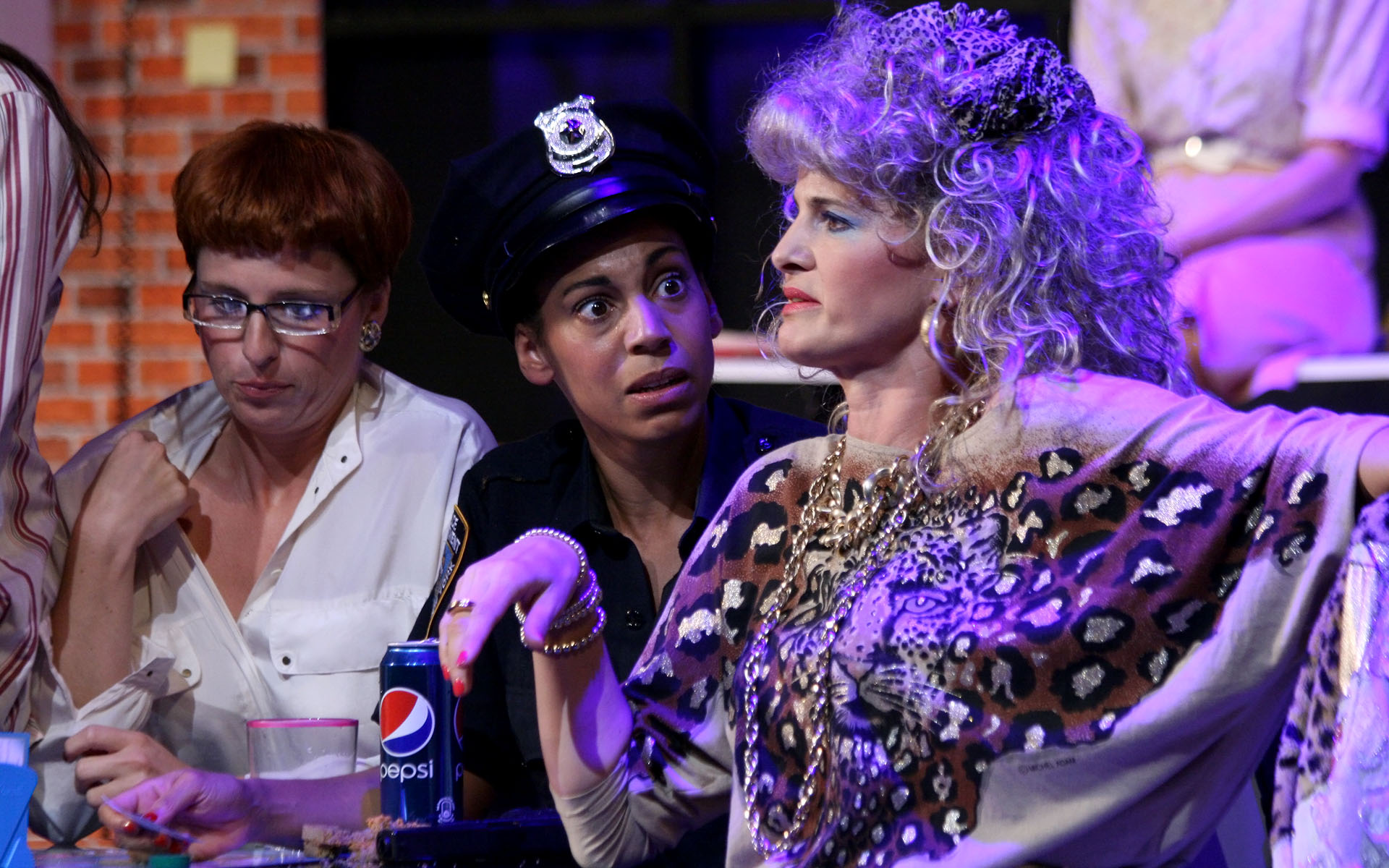 Elli Colditz, Rachelle Nkou and Doris Hindinger in Ein ungleiches Paar, an adaption of Neil Simons play The Odd Couple. Summer theater festival at the city theater of Berndorf (Lower Austria).